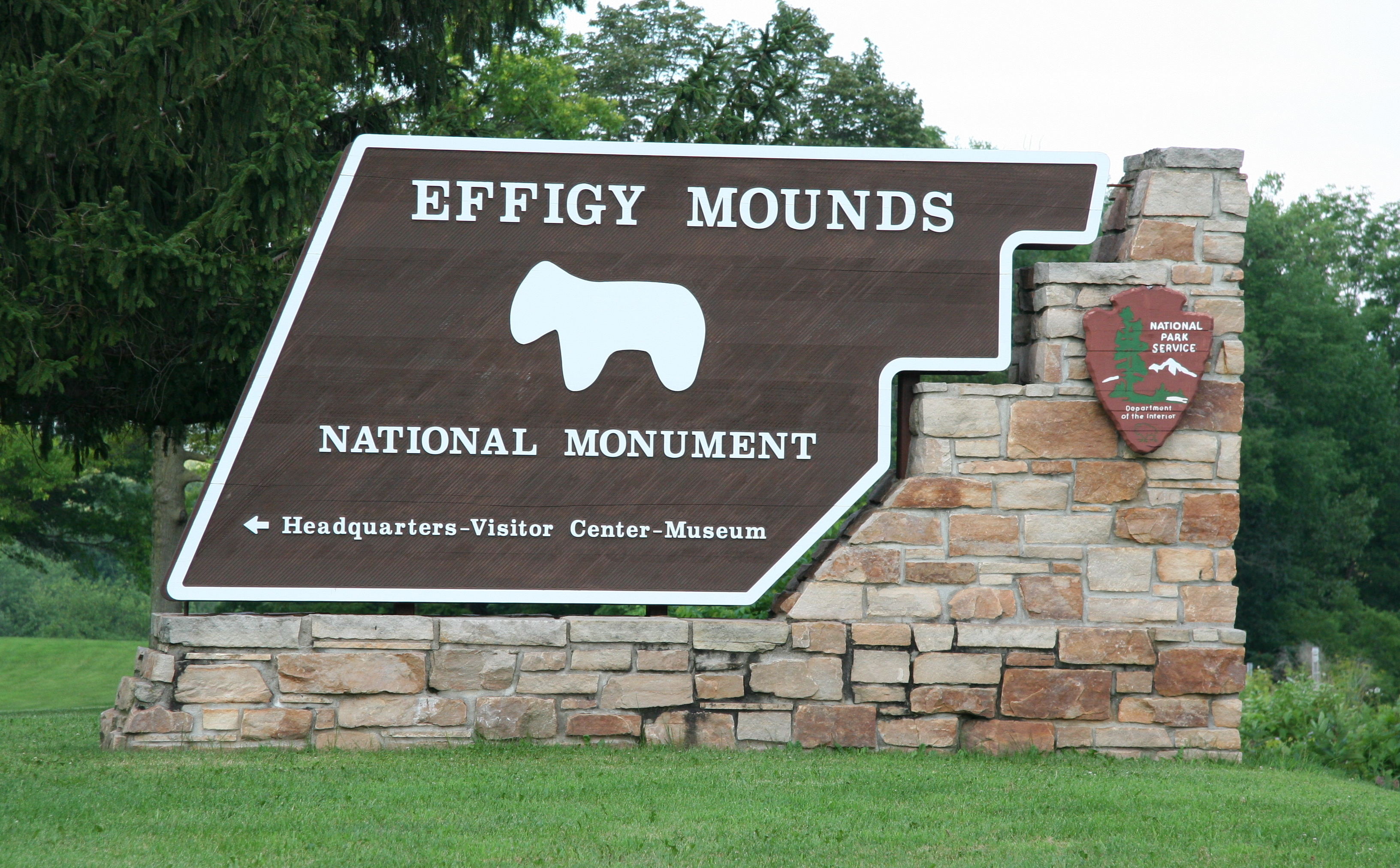 Effigy Mounds National Monument entrance sign north of Marquette, Iowa. The sign design and text are public domain works of the United States Federal Government, National Park Service.